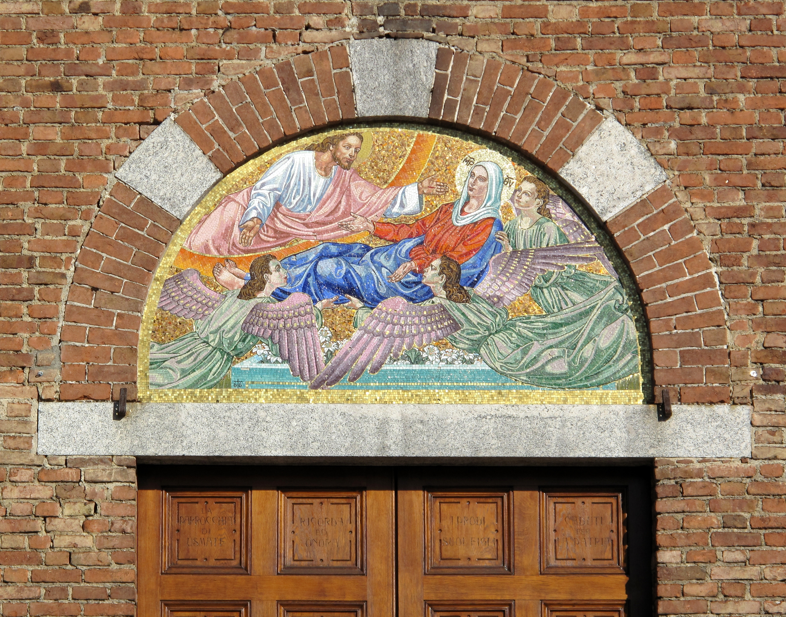 Front door Mosaic - Church of Santa Margherita in Usmate Velate (MI)